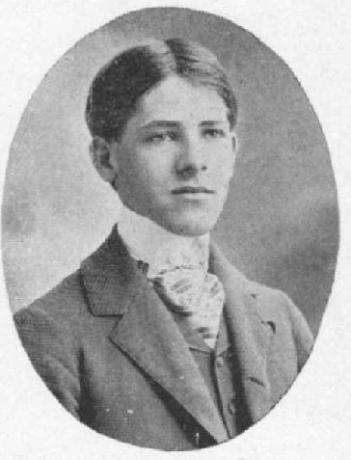 Photo of LSU head football coach W. S. Boreland